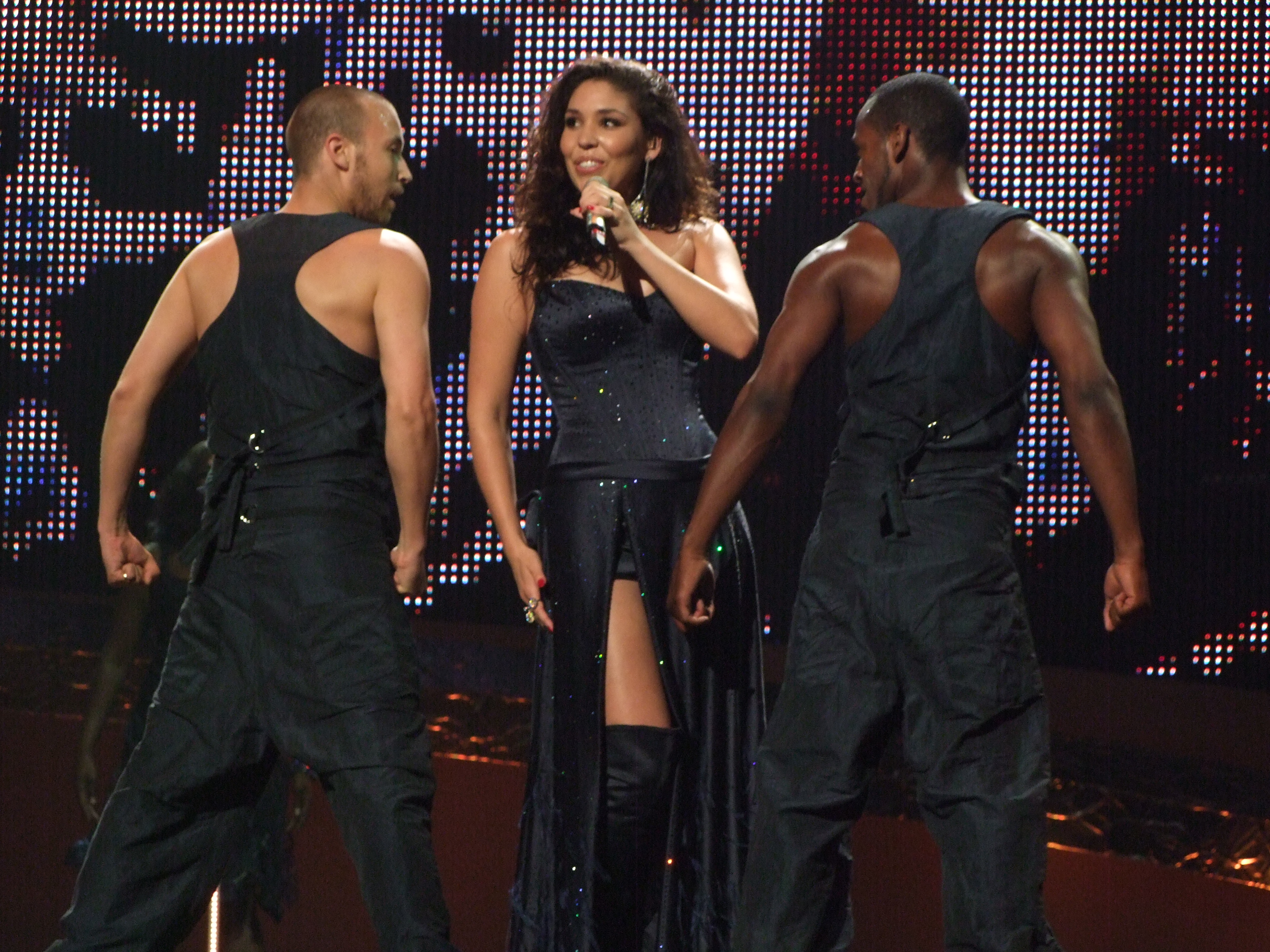 Eurovision Song Contest 2008, 1st semifinal Netherlands: Hind - Your heart belongs to me